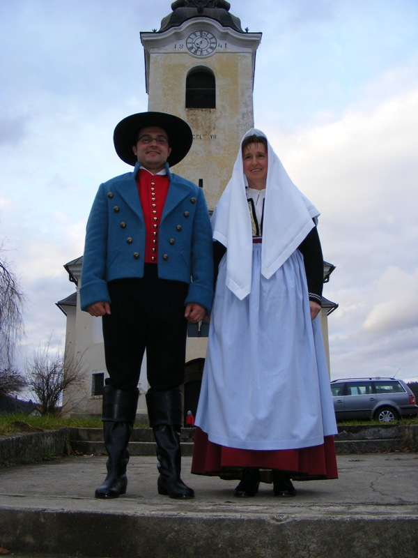 Reconstructed traditional costume from Dobrnič area, Slovenia, after the template dating to 1832